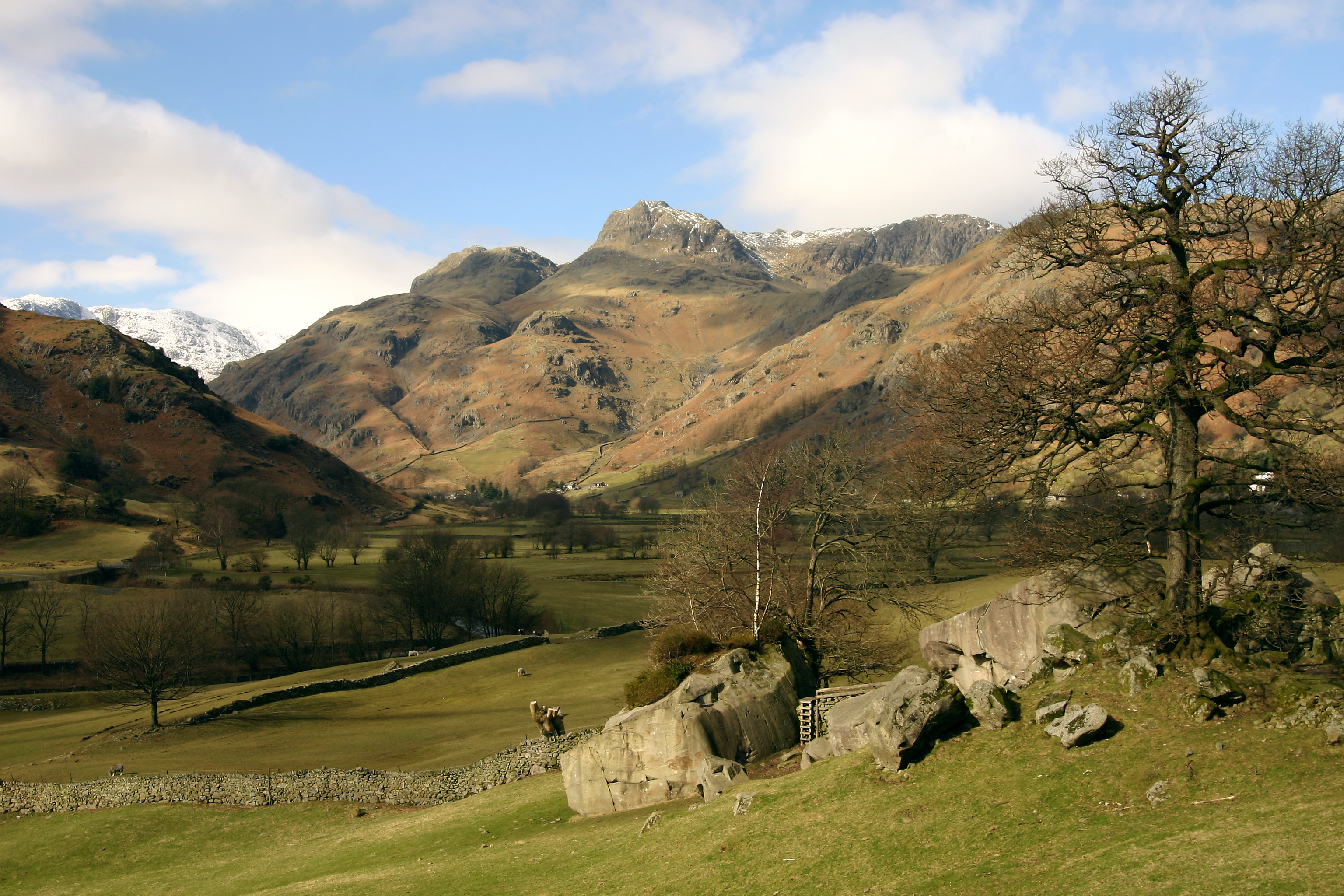 Author: Mark S Jobling